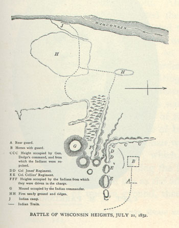 Map of Battle of Wisconsin Heights Battlefield, near Sauk, City, Wisconsin